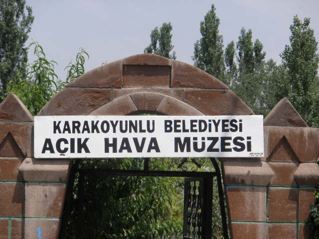 Karakoyunlu Open-Air Museum, Iğdır